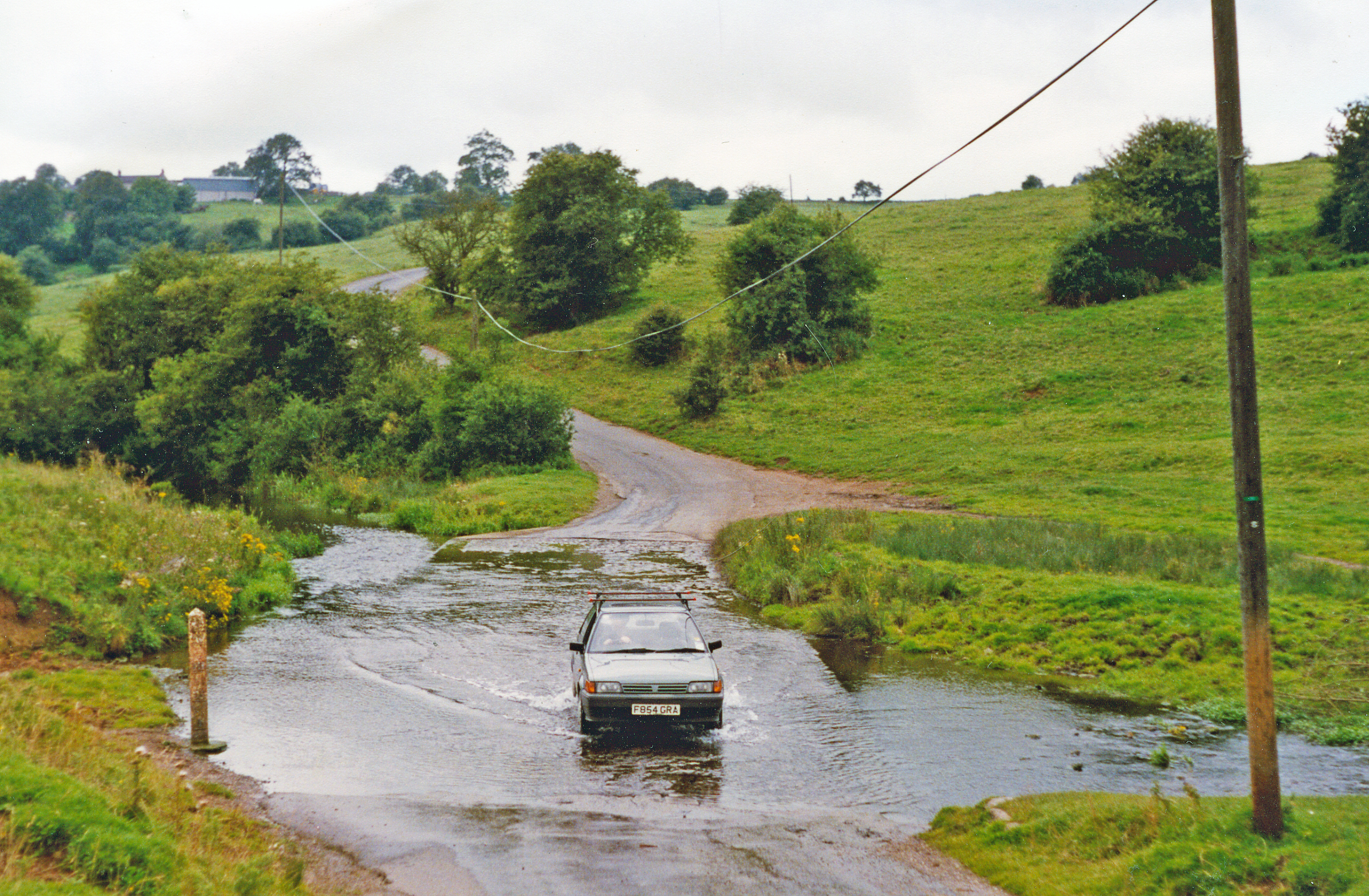 Ford across Bradbourne Brook on road to Tissington. View westward, with my son driving through to demonstrate